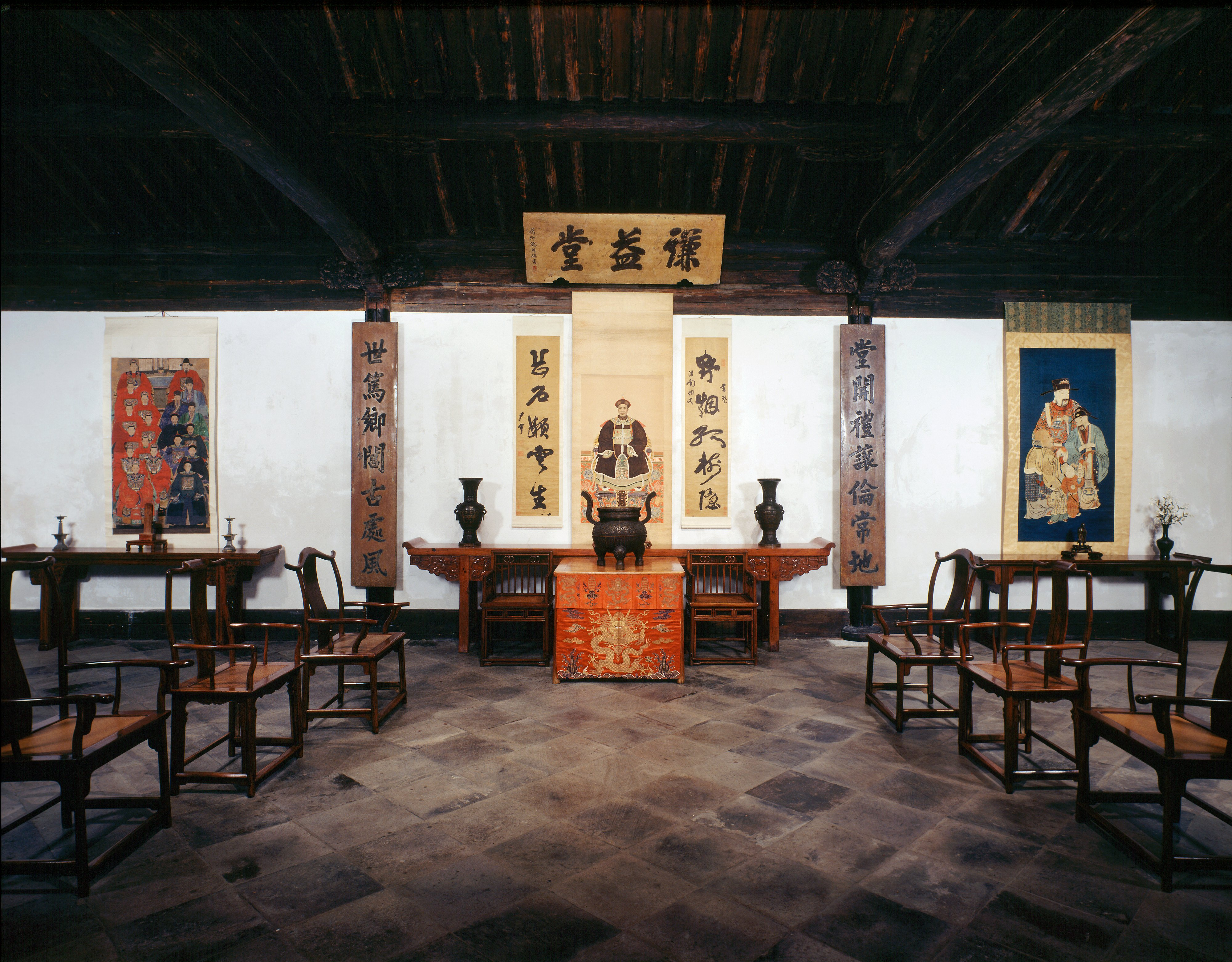 The Wu Family Reception Hall, early 17th century Unknown artist, China Wood, ceramic, tile, plaster, lacquer, stone GIFT OF RUTH AND BRUCE DAYTON 98.61.1 G218 This three-bay reception hall was originally part of a traditional Suzhou-style courtyard house located in the east Dongting district near the present town of Dongshan. Built in the early 1700s by the Wu family, it served as the main ceremonial hall (zhongtang) of a traditional upper-class home. It was a public space where elders carried out rituals honoring their ancestors, received guests, entertained family and friends, and celebrated family events like birthdays, anniversaries, and weddings. As the most important room in a Confucian household, it was set with grand examples of fine furniture, hung with calligraphic panels declaring Confucian values, and decorated with fine-art objects to express the social status and wealth of the family as well as its cultural refinement and artistic taste.